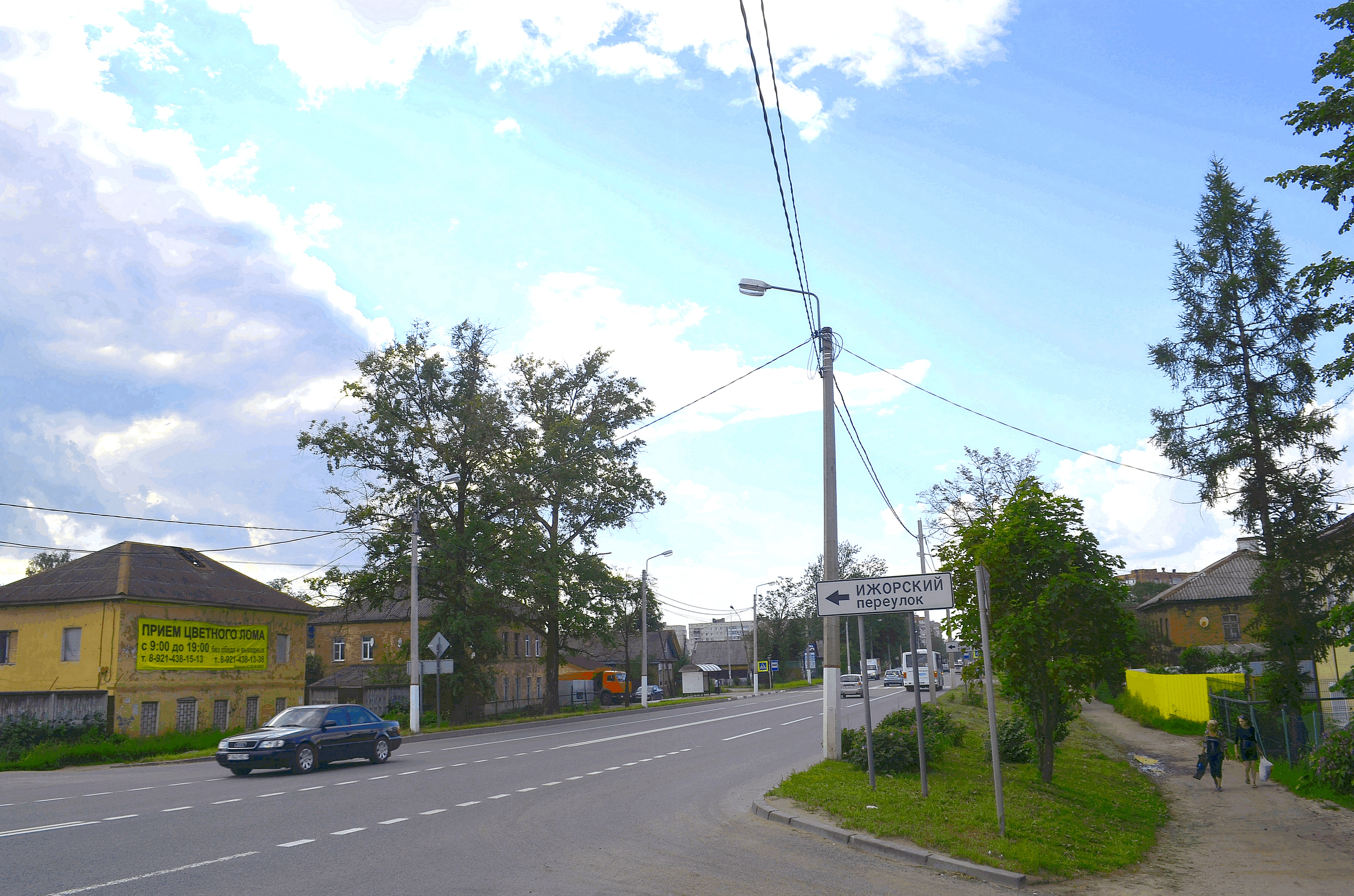 The complex of buildings Yamskaya Sloboda. Buildings. Russia, Leningrad region, Tosno, Lenin Avenue, 169.